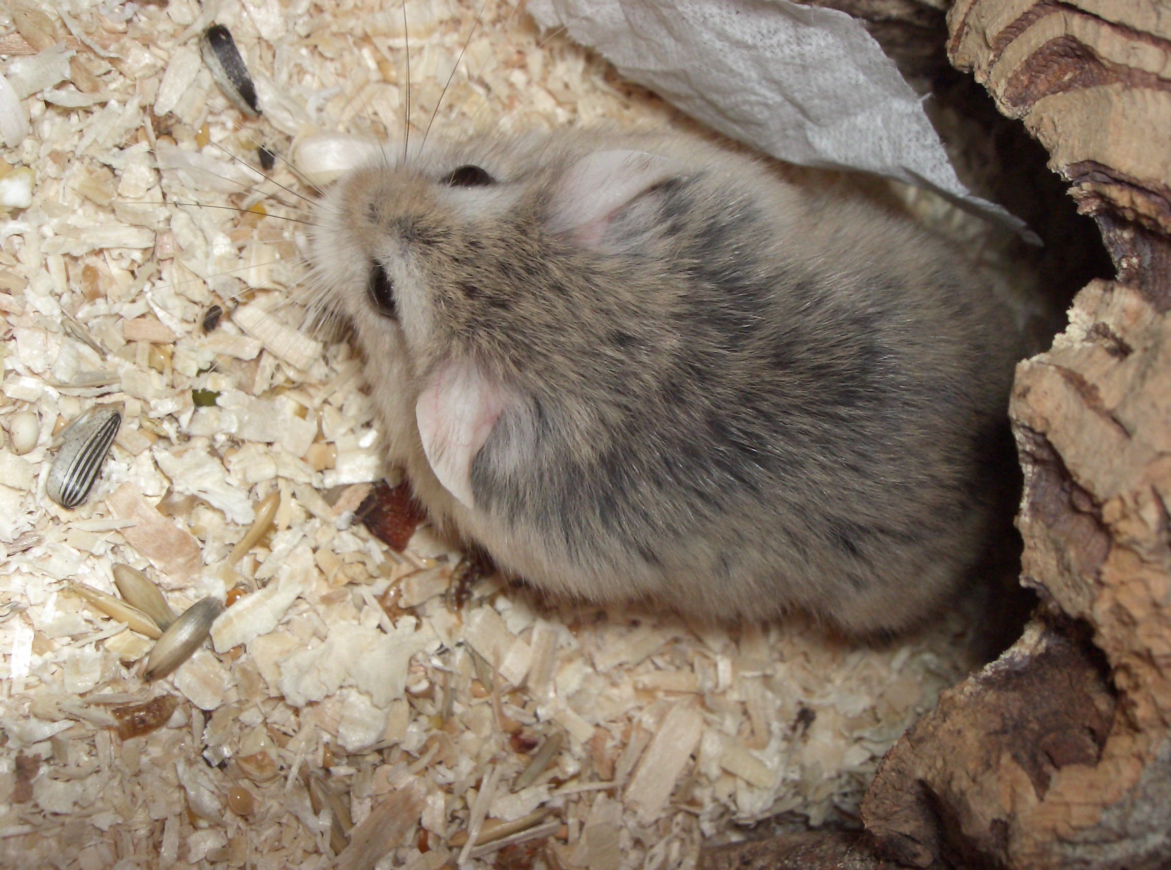 Phodopus roborovskii, male, 24 months old, with filled cheek pouches